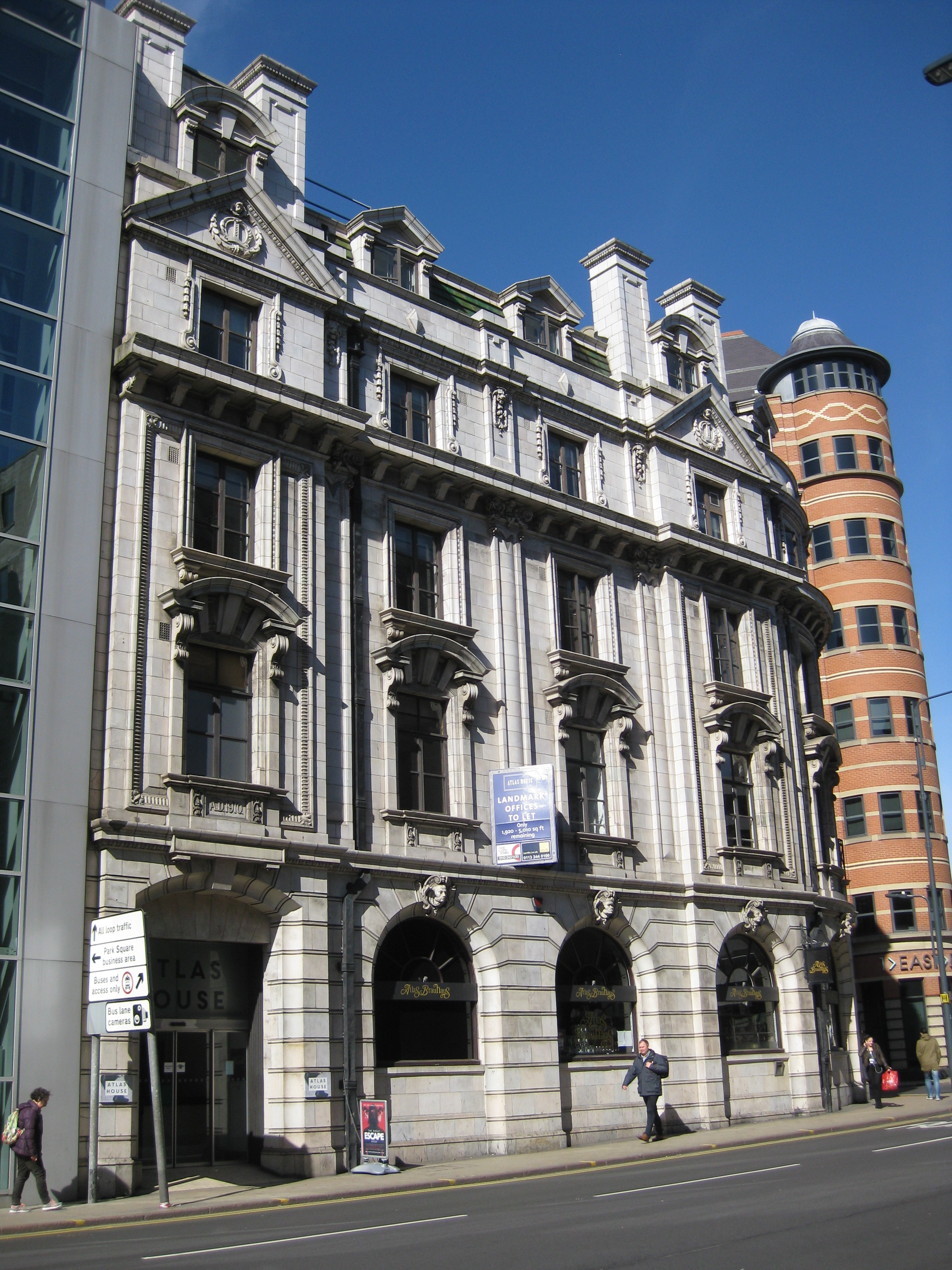 Atlas House, King Street, Leeds. 4 storey buildng including attics faced in Marmo (Burmantofts Pottery product). Rusticated ground floor, segmental-arched entrances and round-arched windows. Grade II Listed building.